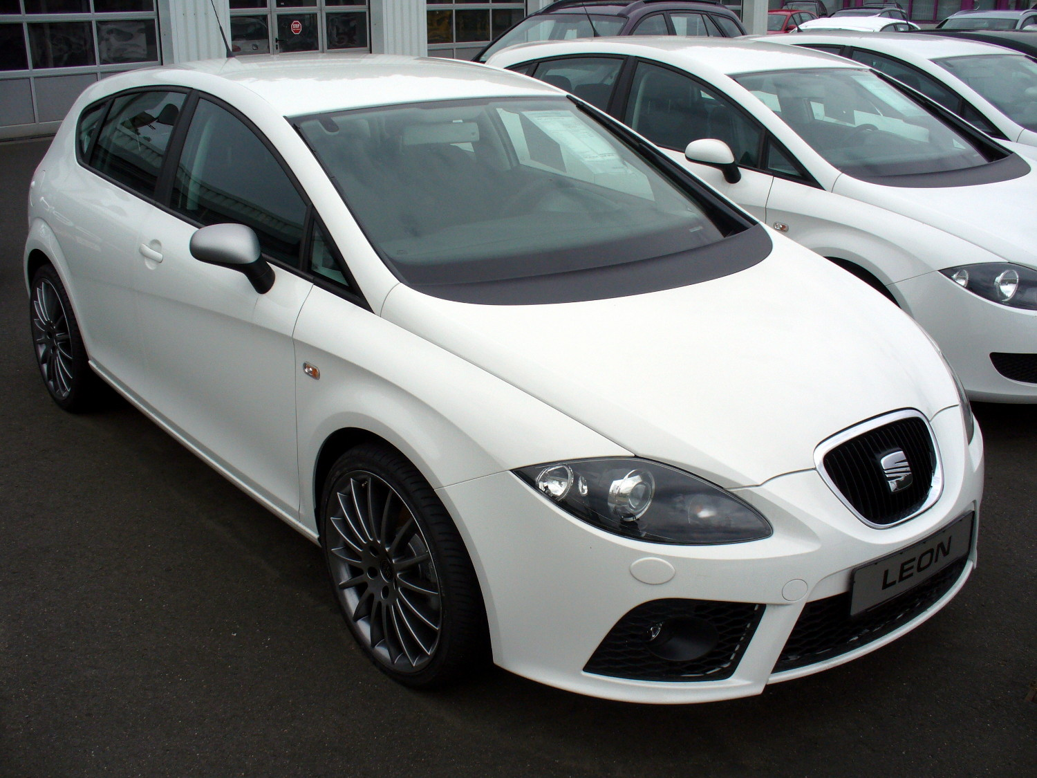 Seat Leon FR